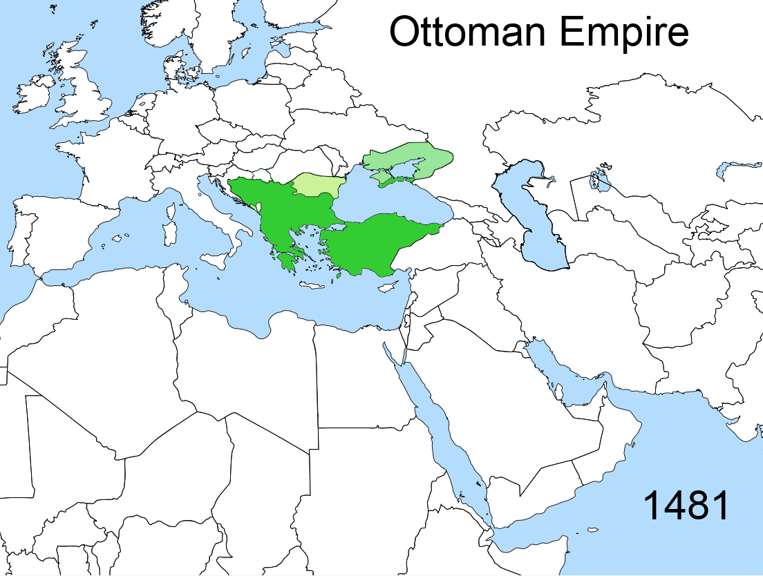 Territorial changes of the Ottoman Empire